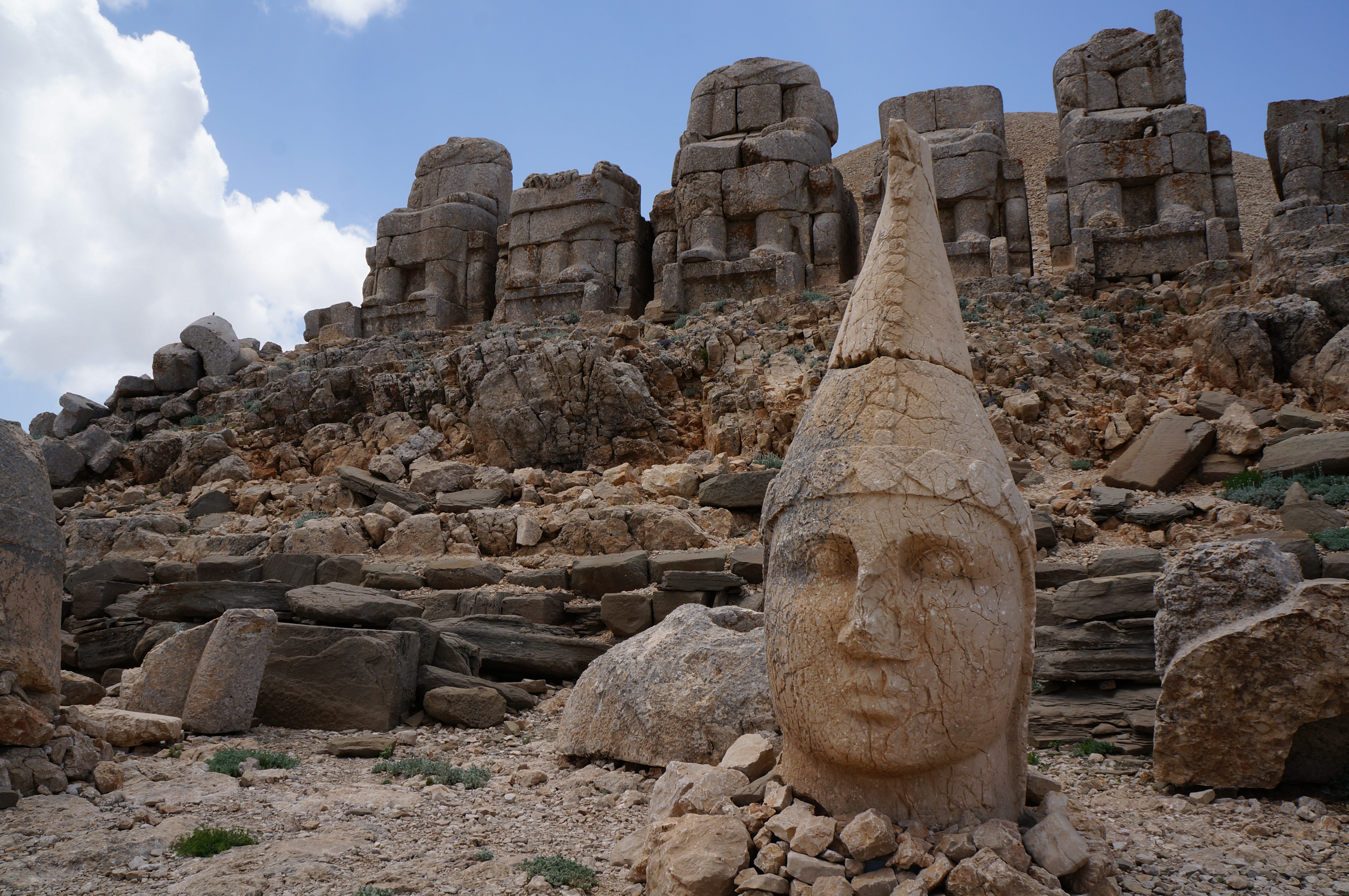 picture taken from front side of mount nemrut